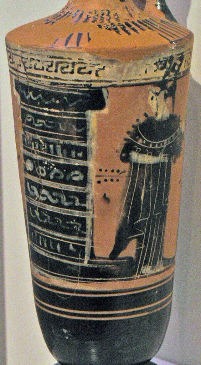 Lekythos. Theseus, Minotaur and Athena in the Labyrinth. From Vari. By the Beldam Painter. About 480 BC.